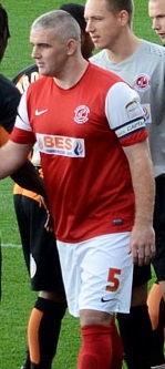 Steve McNulty. Image cropped from original at flickr.